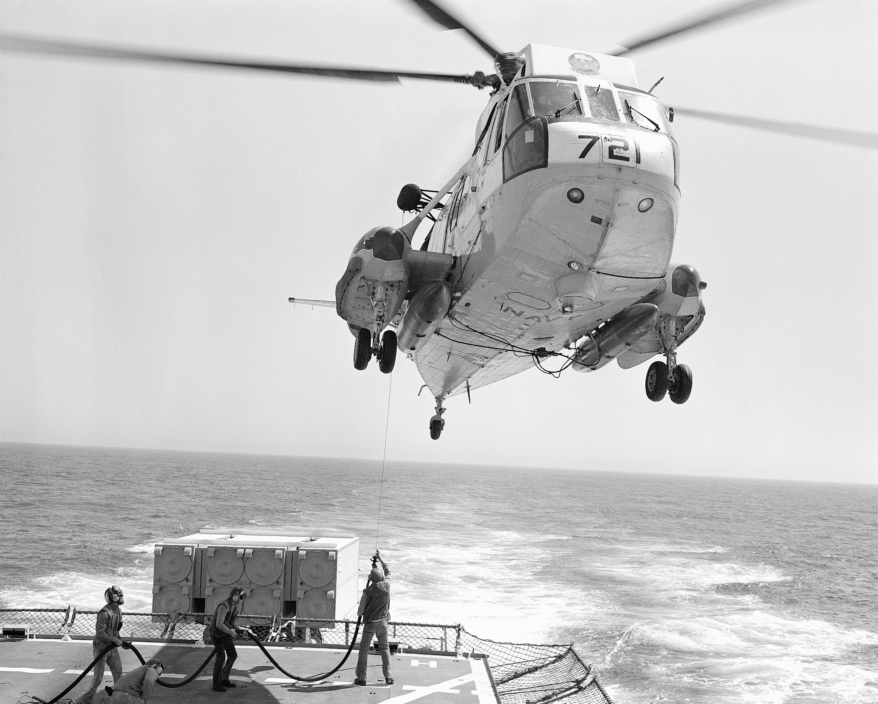 A U.S. Navy Sikorsky SH-3G Sea King of Helicopter Combat Support Squadron 1 (HC-1) "Pacific Fleet Angels" refuels from the frigate USS Bagley (FF-1069), underway off the coast of Southern California (USA), on 9 March 1981.